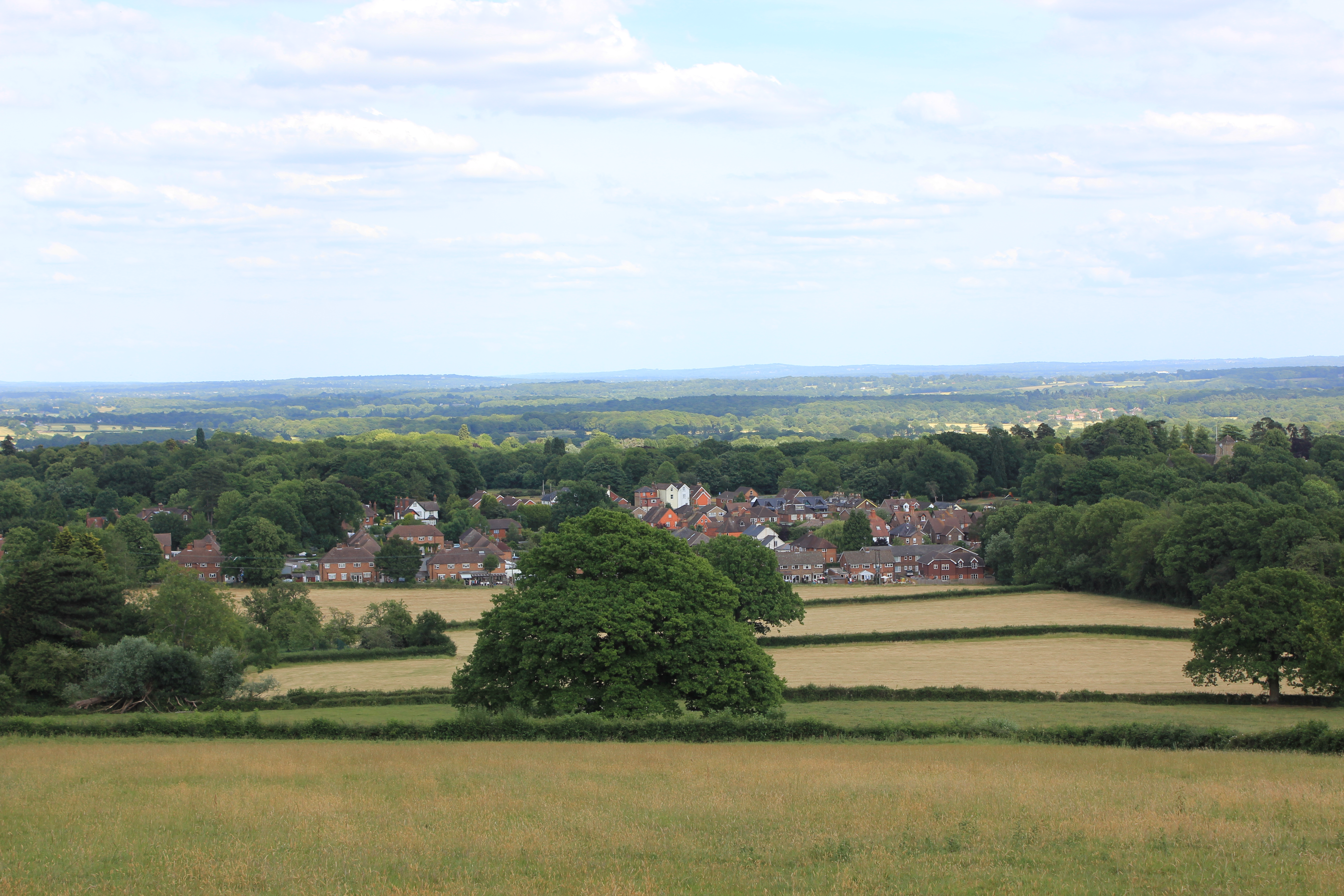 View of the Surrey village of South Holmwood from a field near Redlands Wood on Leith Hill